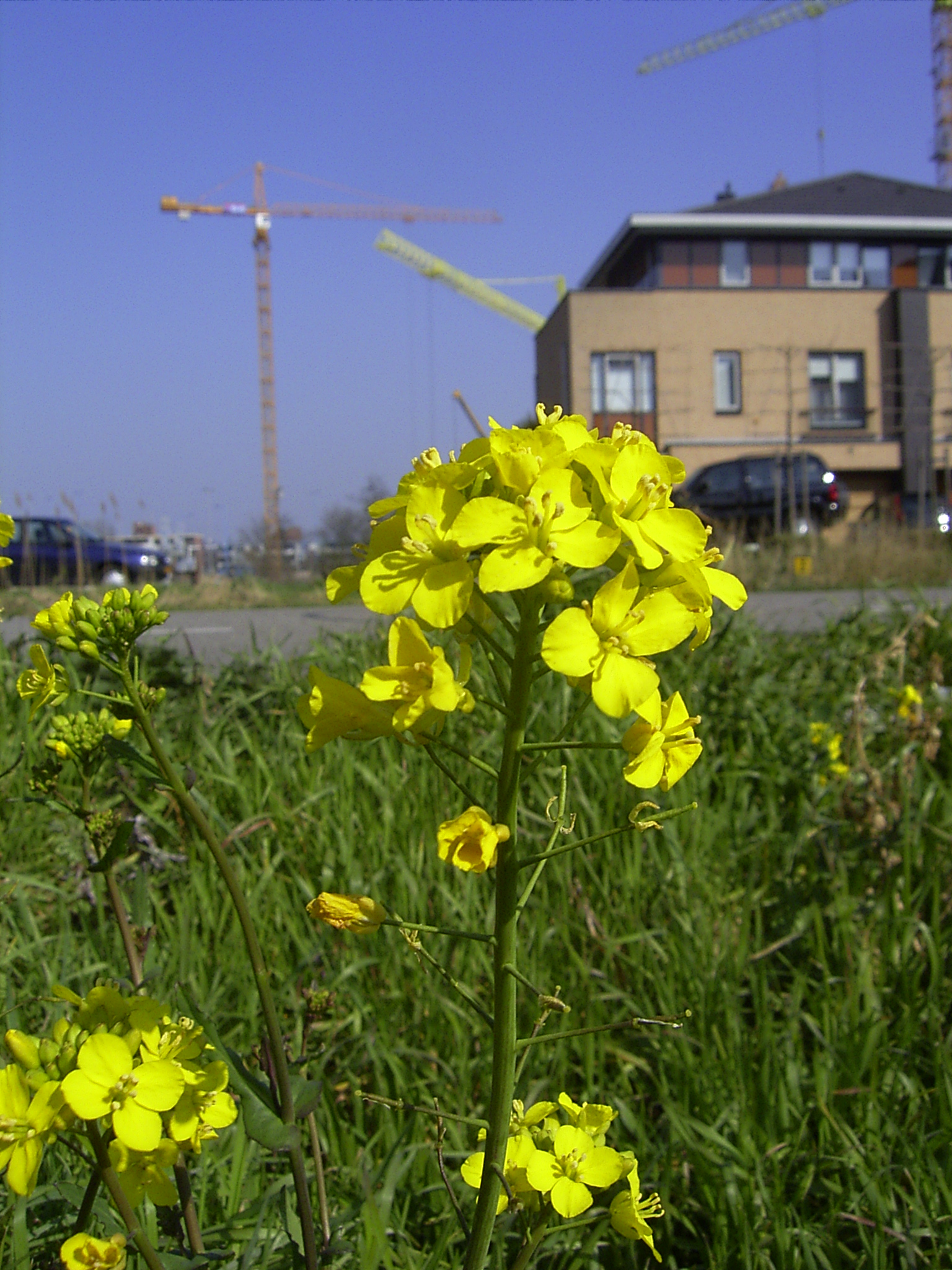 Deze foto toont het . Ik nam de foto in 2004 in Zoetermeer. This photo shows some flowers of Brassica rapa. I took the photo in Zoetermeer.